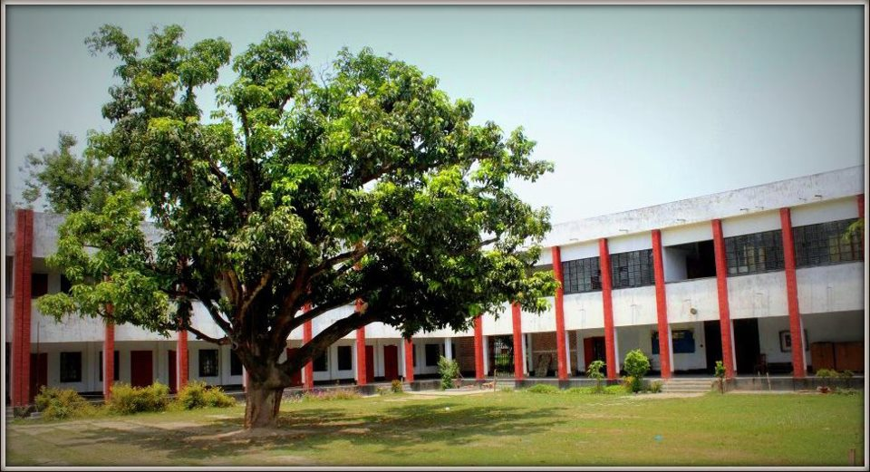 north-east corner of RUS